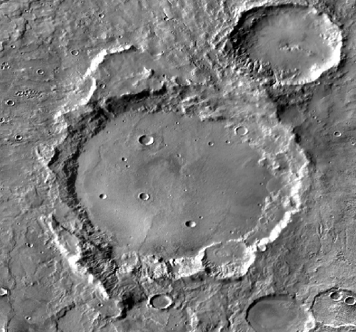 Cruls (Martian crater), THEMIS (Thermal Emission Imaging System (THEMIS) IR Day (MDIM2.1) Image, Mars Odyssey Orbiter